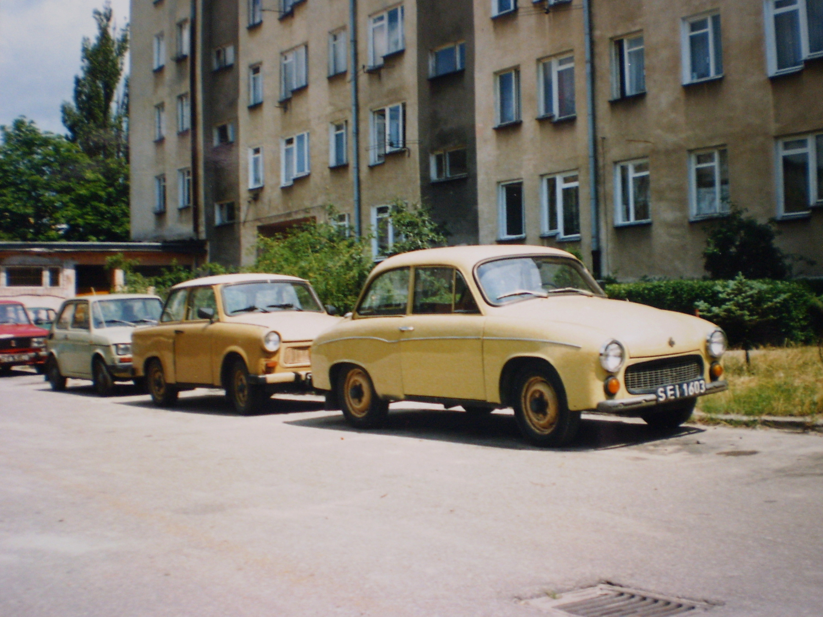 Cars parked at an apartment block in Mińsk Mazowiecki, Poland, 1991. Front to back: FSM Syrena 105, Trabant 601, Polski Fiat 126p, Lada